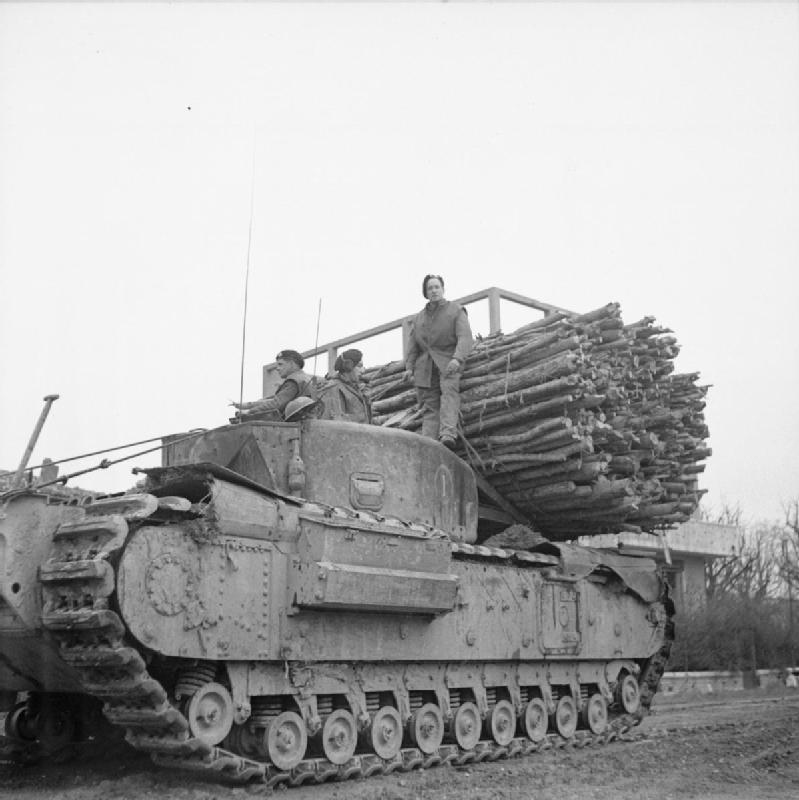 Churchill AVRE with fascine, Italy.